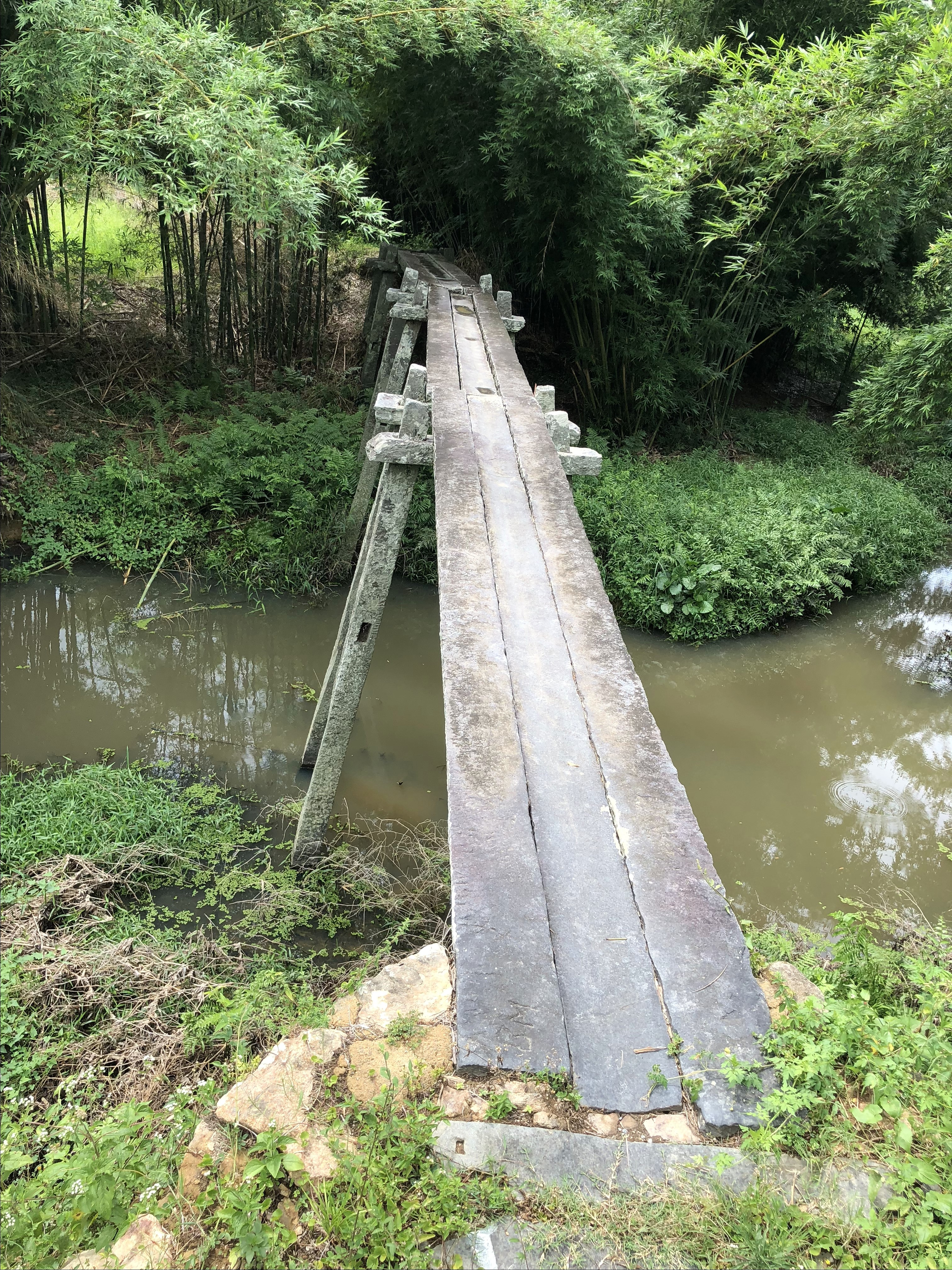 Huangshatang High Bridge